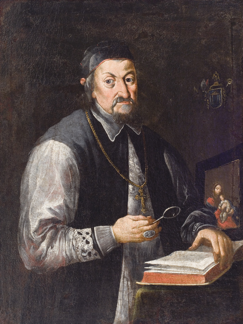 Portrait of Mikołaj Słupski (1616-1693), Bishop, the Suffragan of Byelorussia